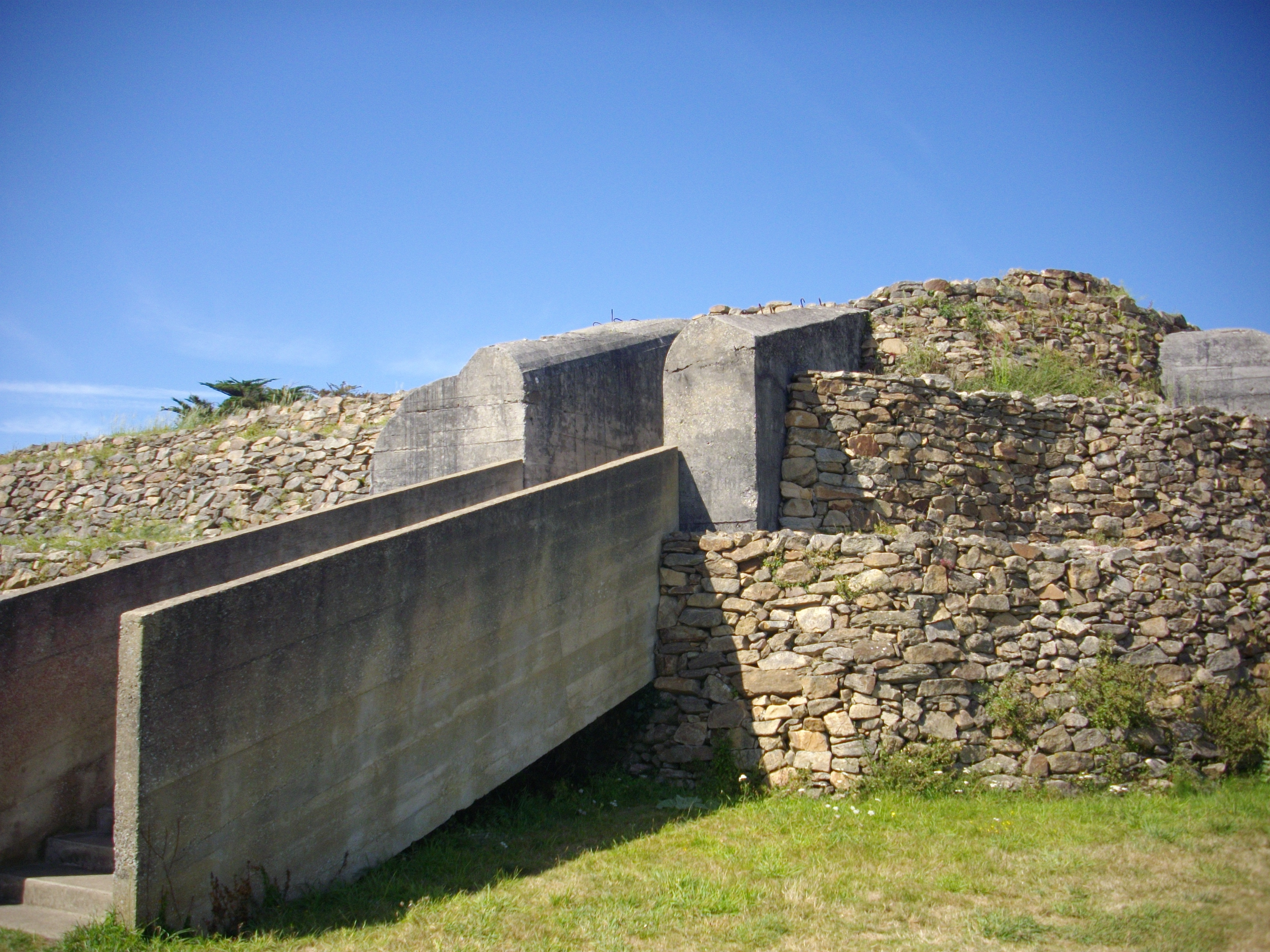 "Petit Mont" in Arzon (Morbihan, France), view of the bunker .